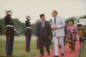 The photo contact sheet, identified as A5394 by the White House Photographic Office (WHPO), is housed at the Gerald R. Ford Presidential Library, a branch of the National Archives and Records Administration (NARA). This file is a 200 dpi photo contact sheet having images from roll of film A5394 of the August 9, 1974 - January 20, 1977 Gerald R. Ford White House Photographic Office Series A0001-A9999 and B0001-B2886 photographs. The date on the photo contact sheet is the date the roll of film was processed, not necessarily the date the photographs were taken. See table below for additional details.